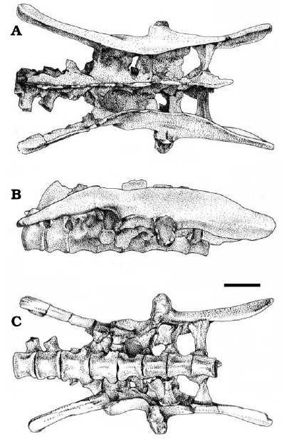 Archaeoceratops oshimai Dong & Azuma, 1997. Holotype IVPP V11114. Sacral vertebrae in dorsal (A), left lateral (B) en ventral (C) views. Lower Cretaceous (Albian), Mazongshan area, Gansu Province, Northwestern China.